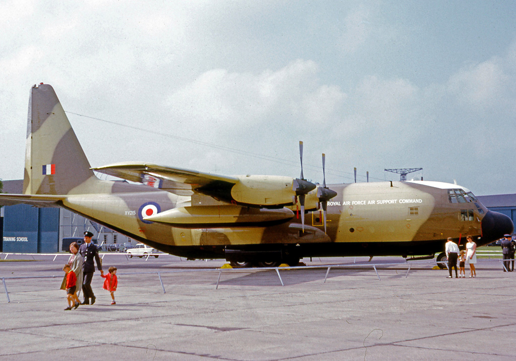 Lockheed C-130K Hercules C.1 XV215 of 24 Squadron RAF in 1968